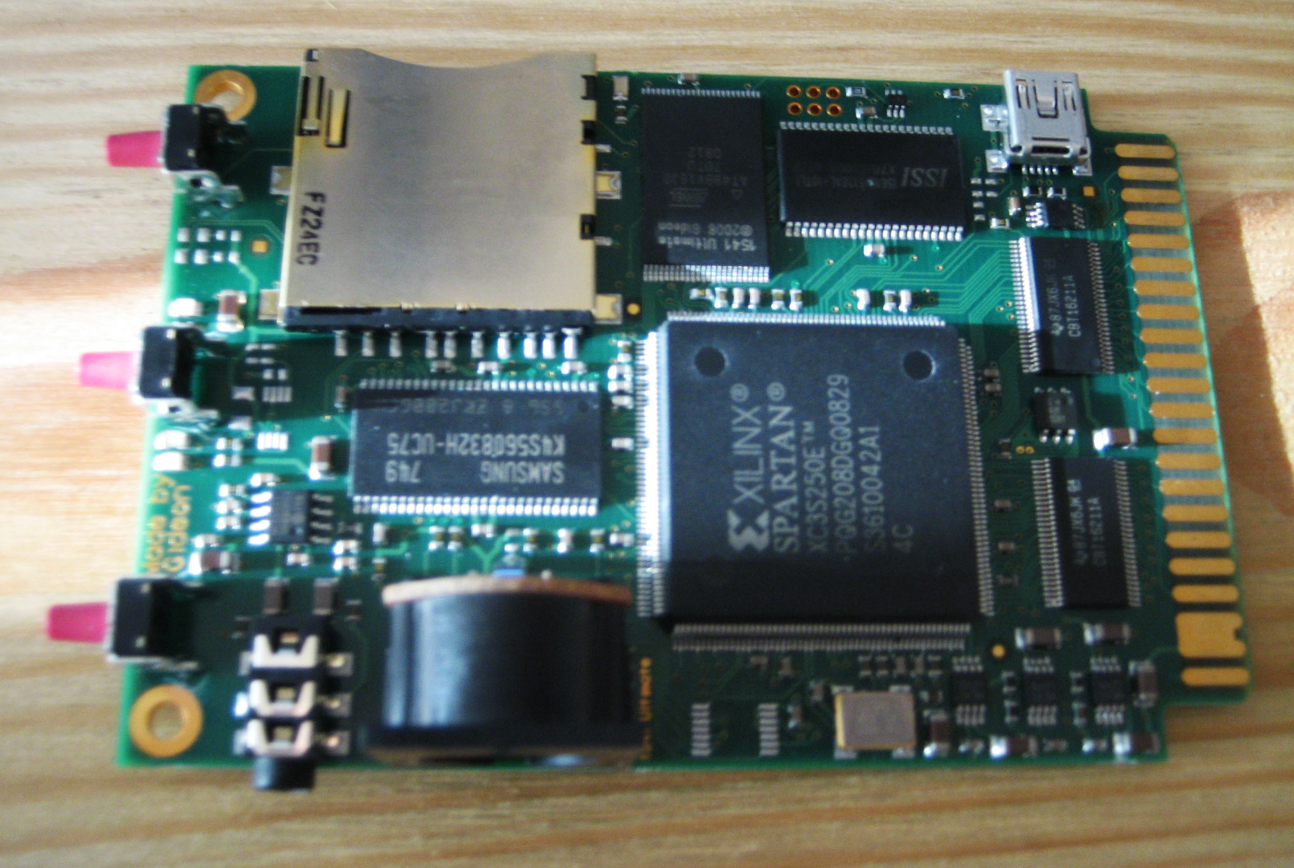 The 1541 Ultimate Plus, a cartridge for Commodore 64 emulating older cartridges and the diskdrive Commodore 1541. Photo by the uploader.